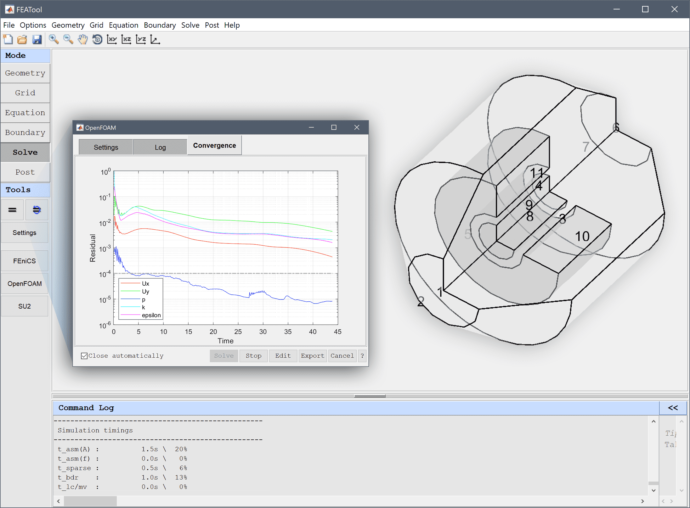 FEATool Multiphysics MATLAB GUI - Solve Mode